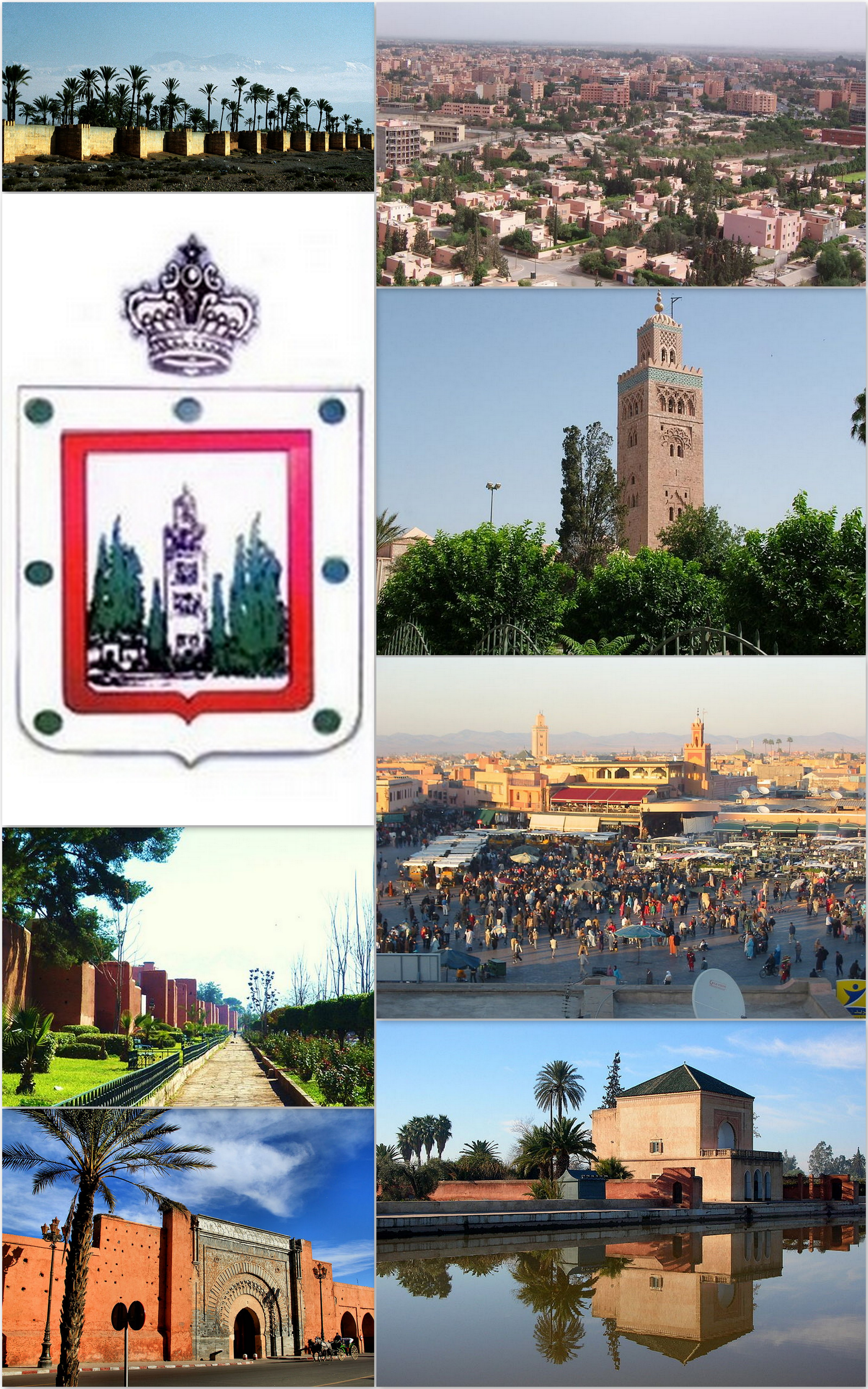 looking south along the Medina walls from the new town towards the old town pic taken by John Doyle Date8 August 2009 (original upload date)SourceOwn workAuthorOriginal uploader was Doyler79 at en.wikipediaPermission(Reusing this file)